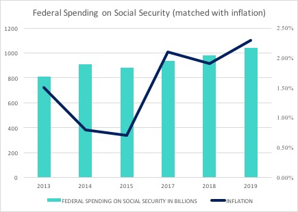 This graph shows the U.S Federal Expenditure on Social Security over the time period of 2013-2019. It also shows the level of inflation in the country which can be used as a point of comparison for the expenditure levels.